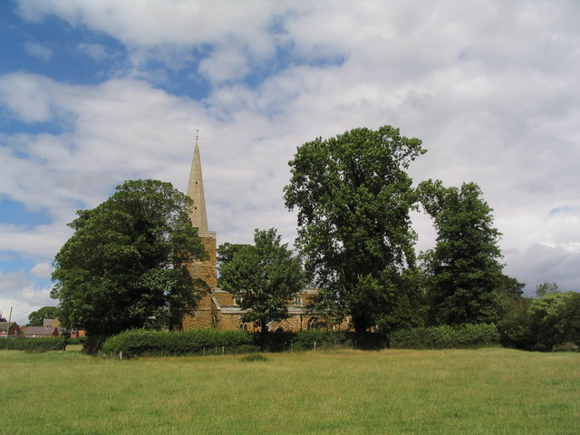 View north across a field at Ab Kettleby, Leicestershire, to the parish church of St James the Great